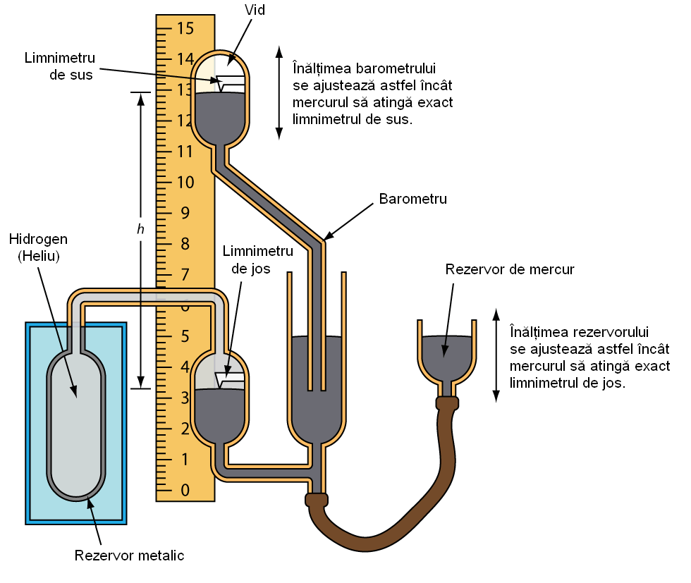 Diagram of a constant volume gas thermometer, ro version.